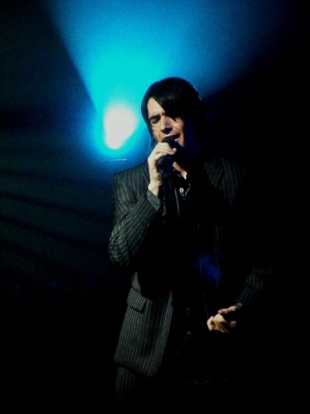 Dihan Slabbert in The 80's Sensation at the Performer Theatre, Pretoria, South Africa.